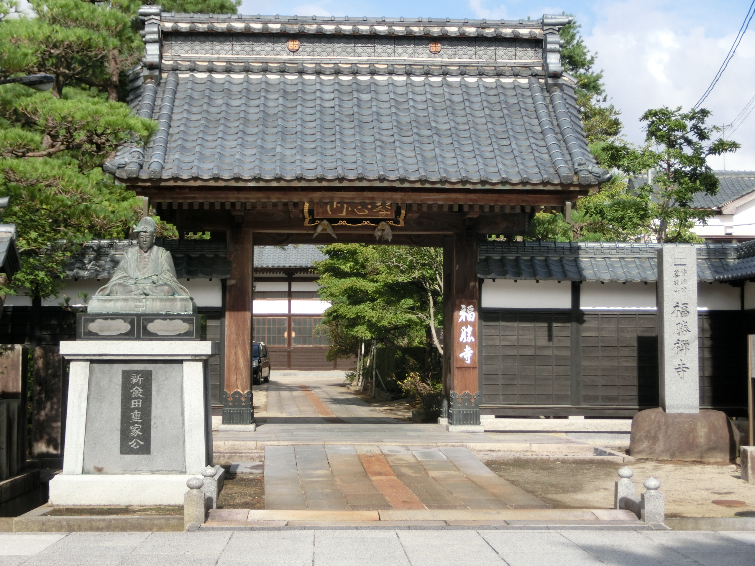 Fukusho-ji (Shibata, Niigata)